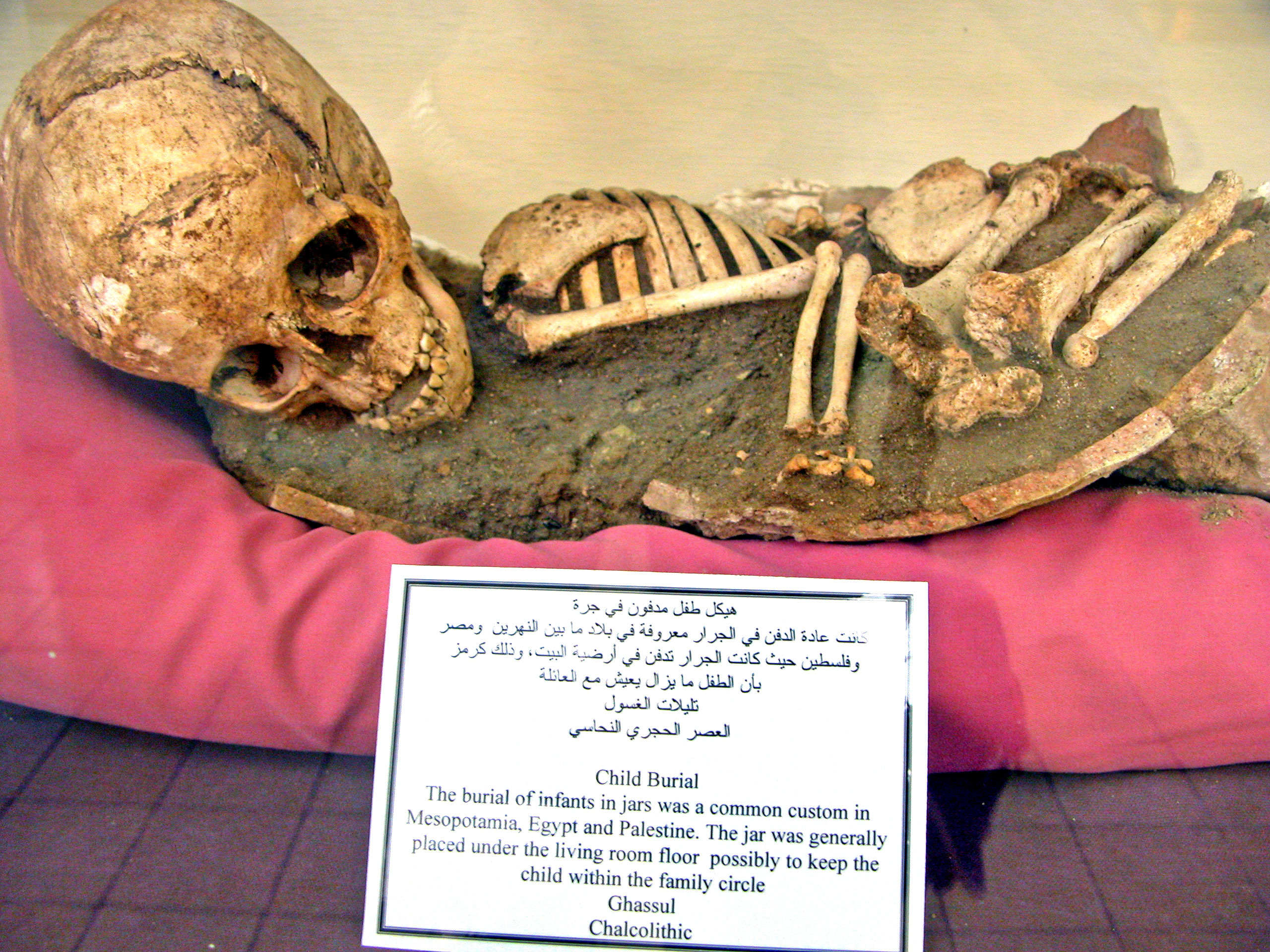 Child Burial – The burial of infants was a common custom in Mesopotamia, Egypt and Palestine. The jar was generally placed under the living room floor to keep the child in the family circle. Amman, Jordan